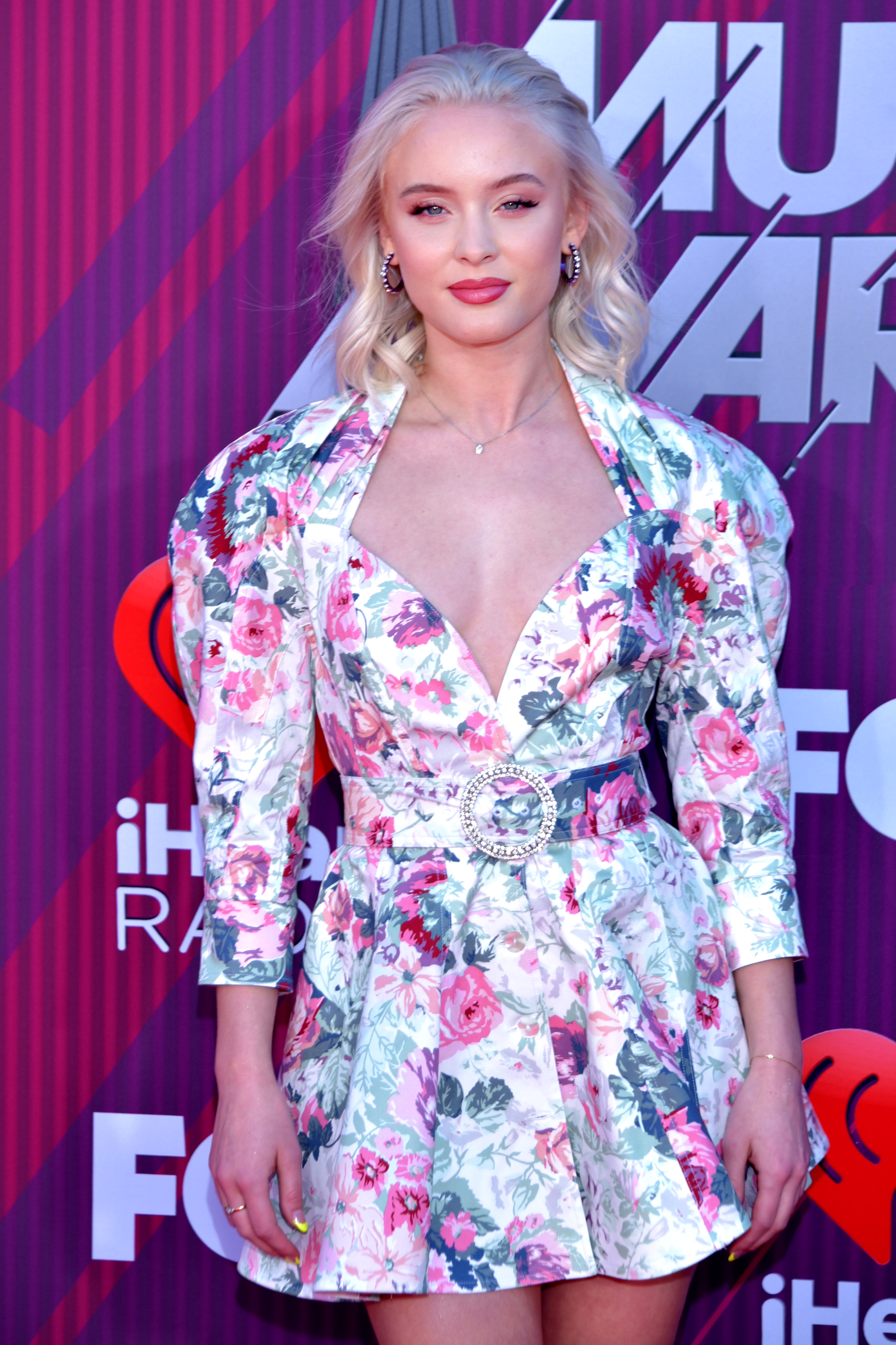 Zara Larsson at the 2019 iHeartRadio Music Awards in Los Angeles California on March 14, 2019 - Photo by Glenn Francis of